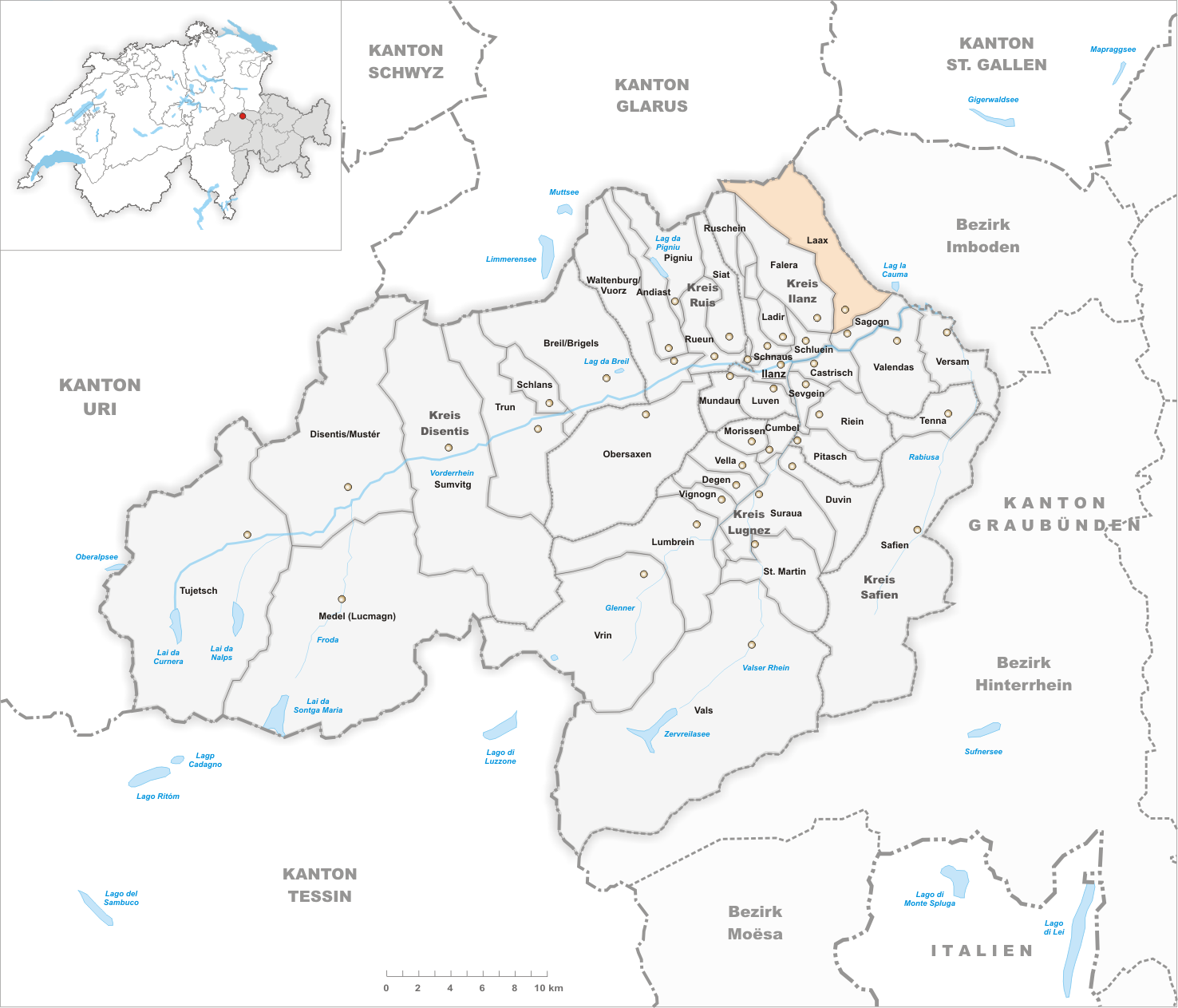 Municipality Laax